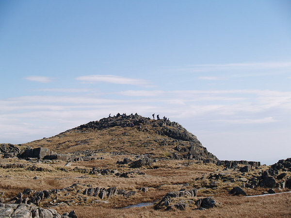 Sergeant Man, a fell in the English Lake District. Photograph taken in May 2007.